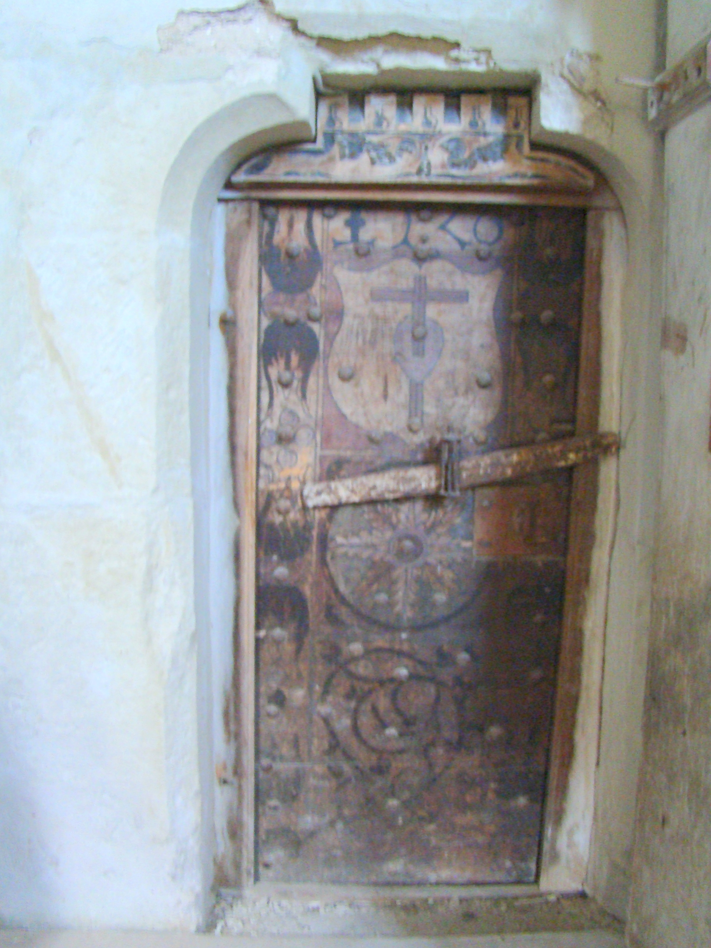 Fortified church in Roadeș, Brașov County, Romania